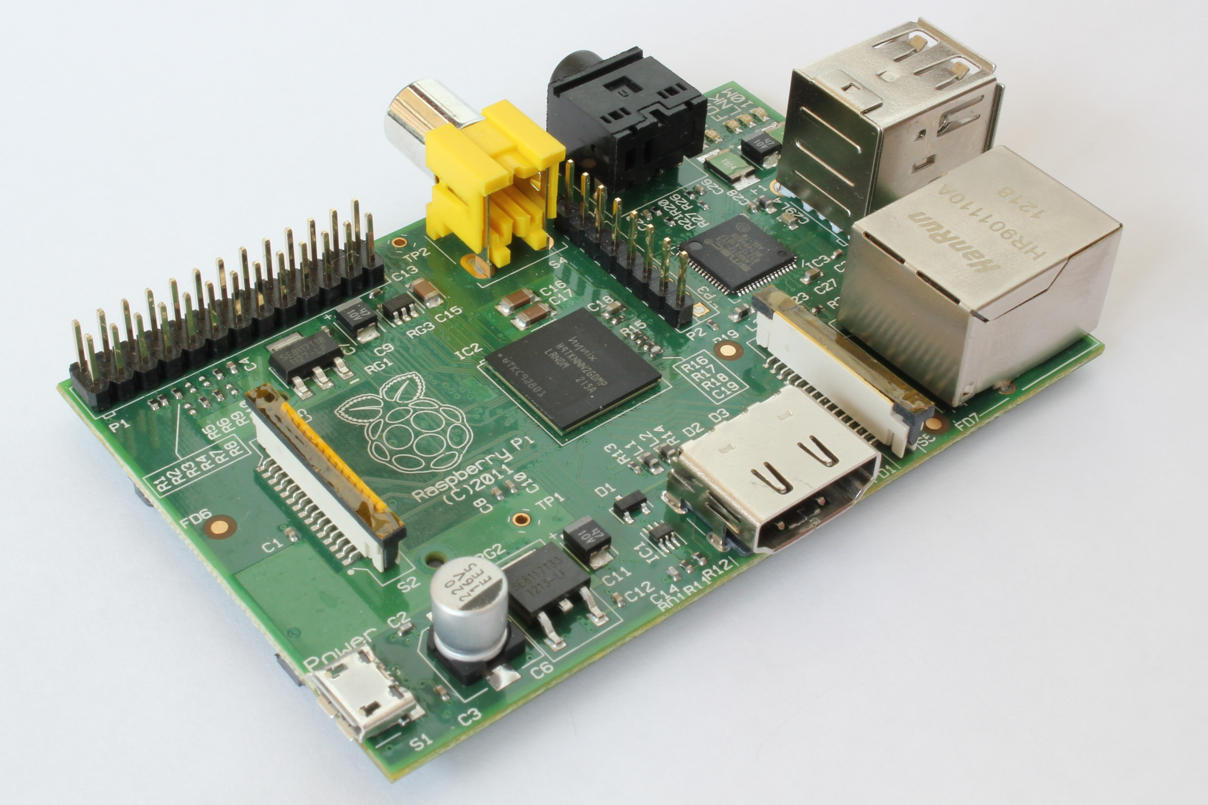 Photograph taken of a Raspberry Pi computer